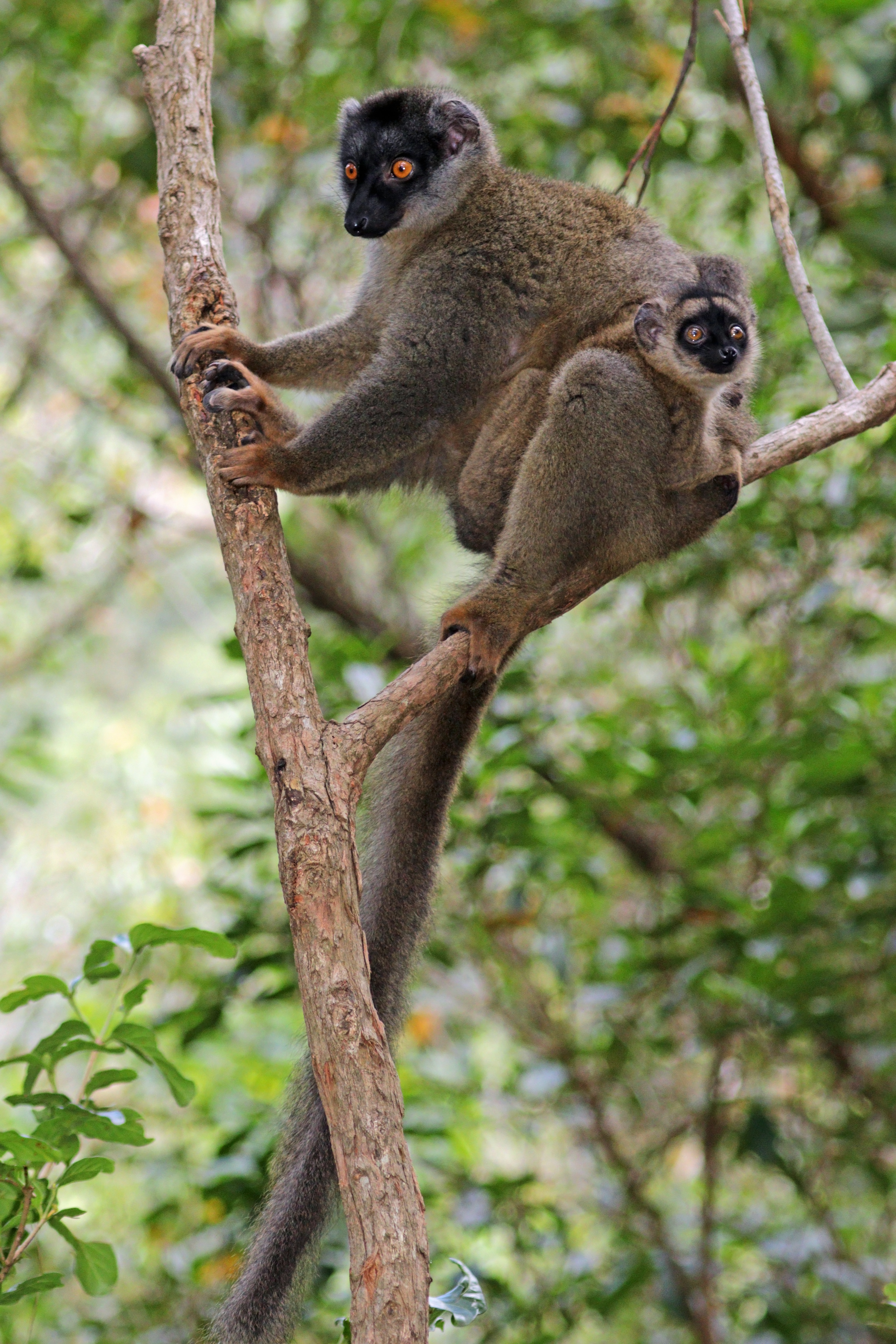 Common brown lemur (Eulemur fulvus) female with juvenile, Peyrieras Nature Reserve, Madagascar. These are wild, but habituated and introduced from another part of Madagascar.